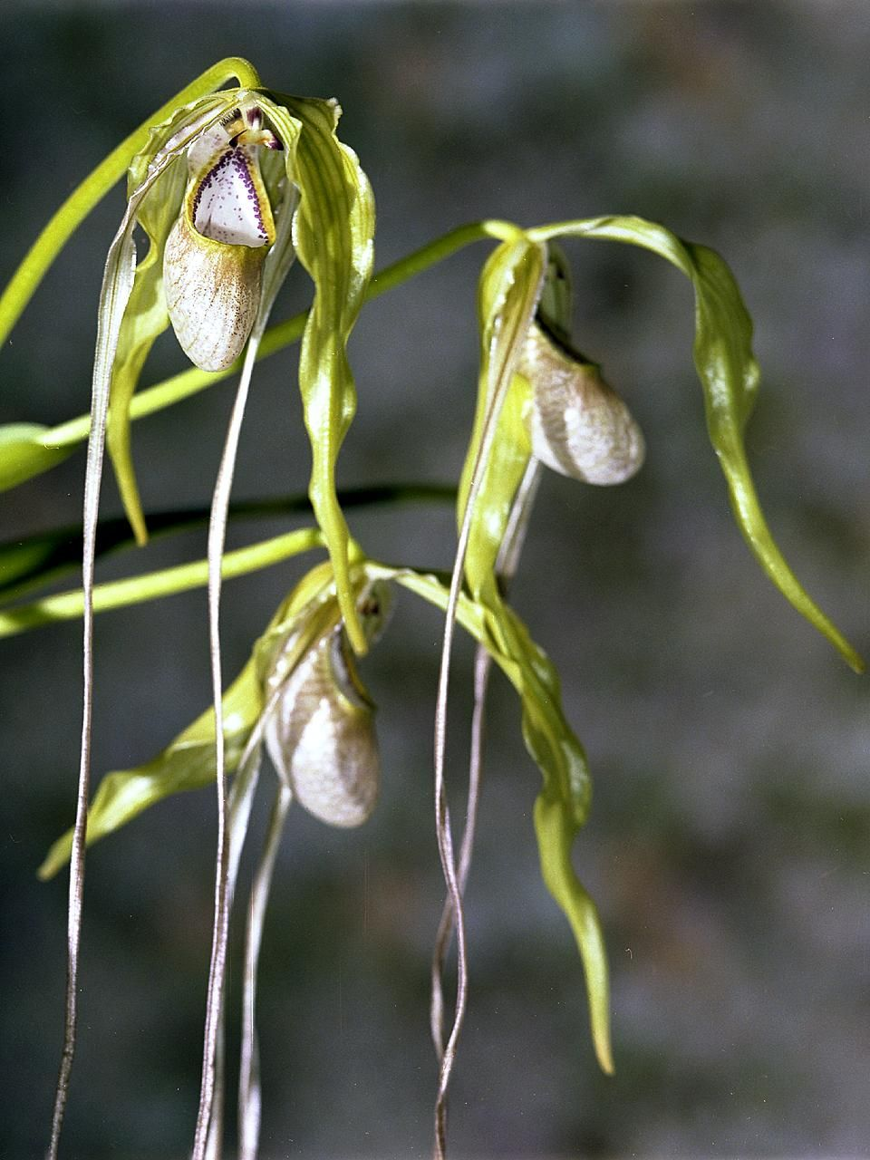 Phragmipedium caudatum - flowers